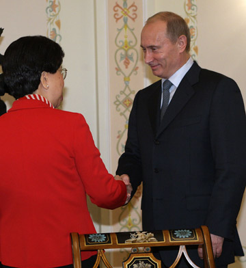 Prime Minister Vladimir Putin met with Margaret Chan, Director General of the World Health Organisation